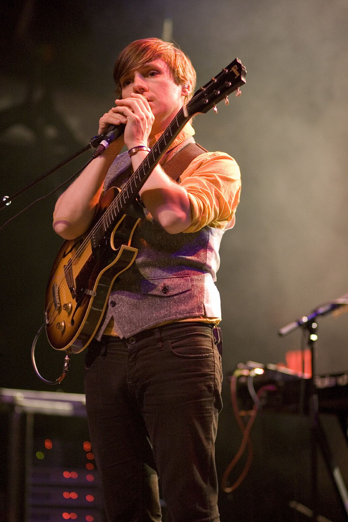 Blake Sennett w/ Rilo Kiley @ Terminal 5, NYC, NY, 6/2/08